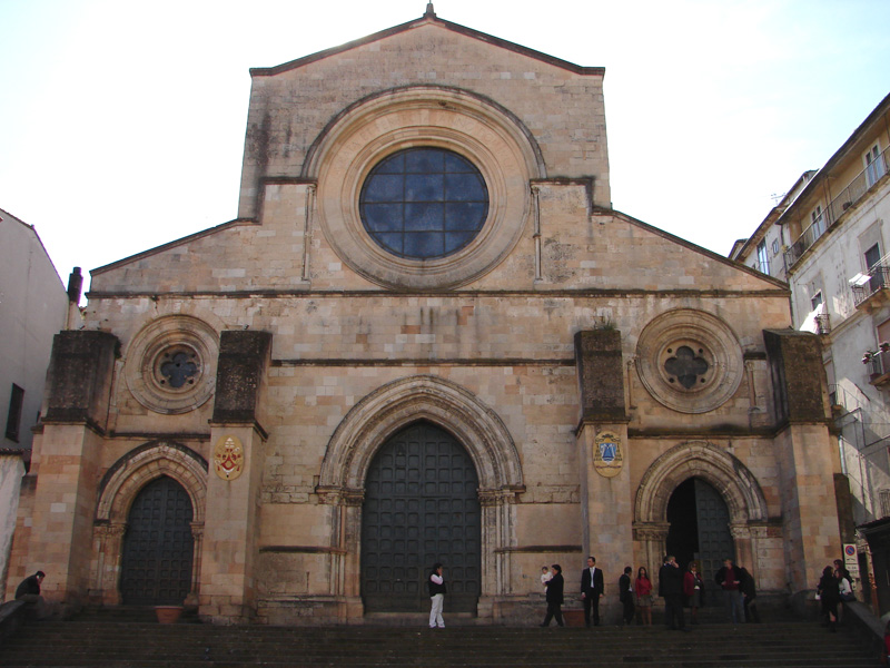 Cathedral of Cosenza, Italy